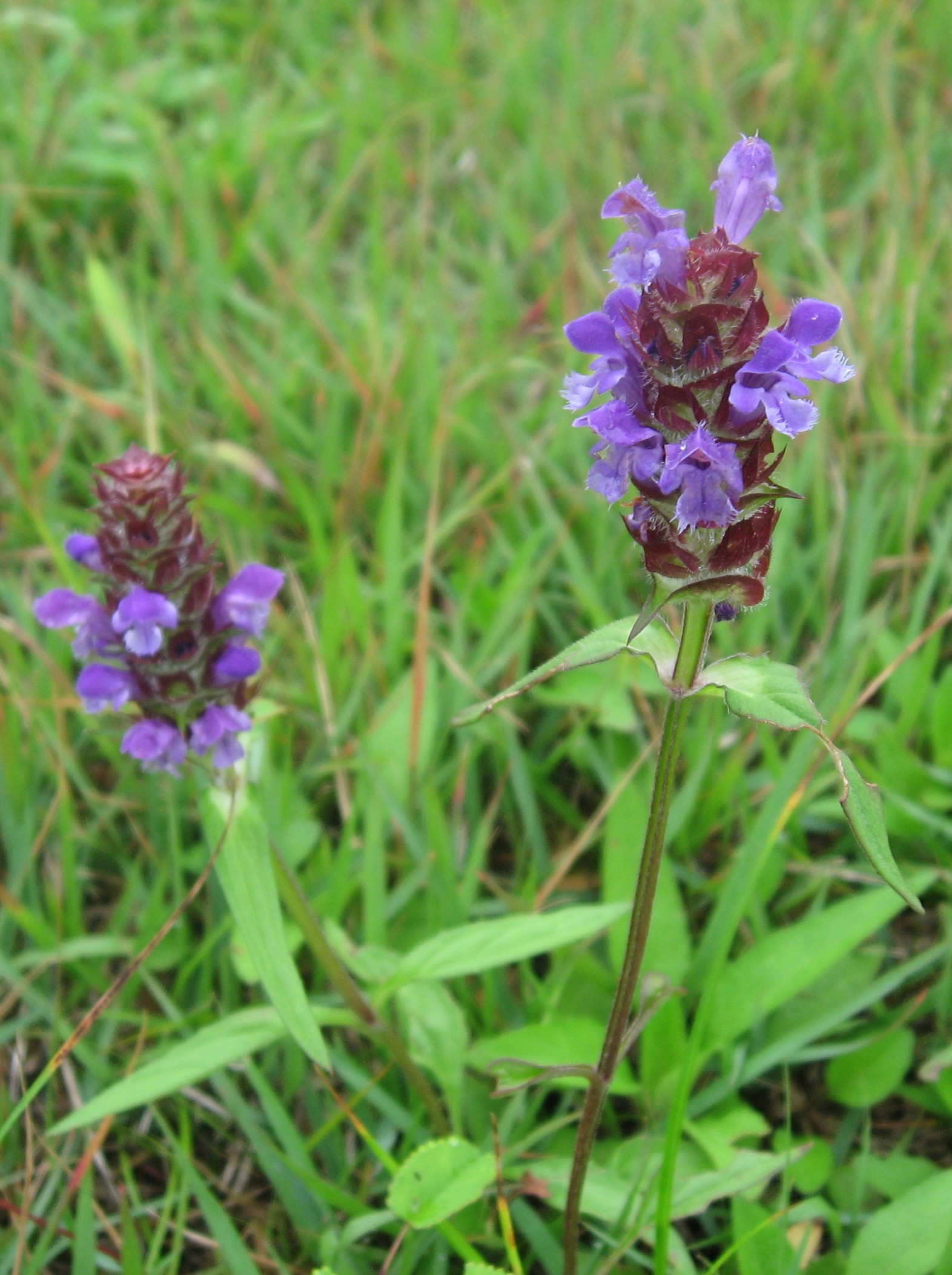 Prunella vulgaris subsp. asiatica, Aizu area, Fukushima pref., Japan